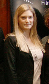 Magdalena Kronschläger at the press conference in advance of the Austrian Film Awards 2011 at the Odeon theater in Vienna.